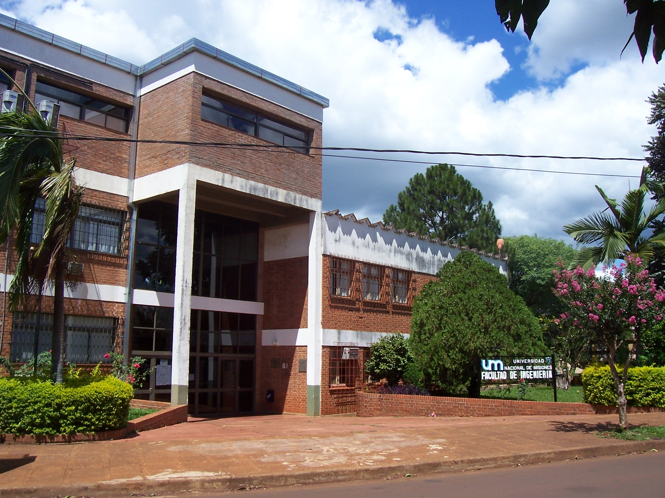 The Faculty of Engineering of the National University of Misiones (UNaM) in Oberá.